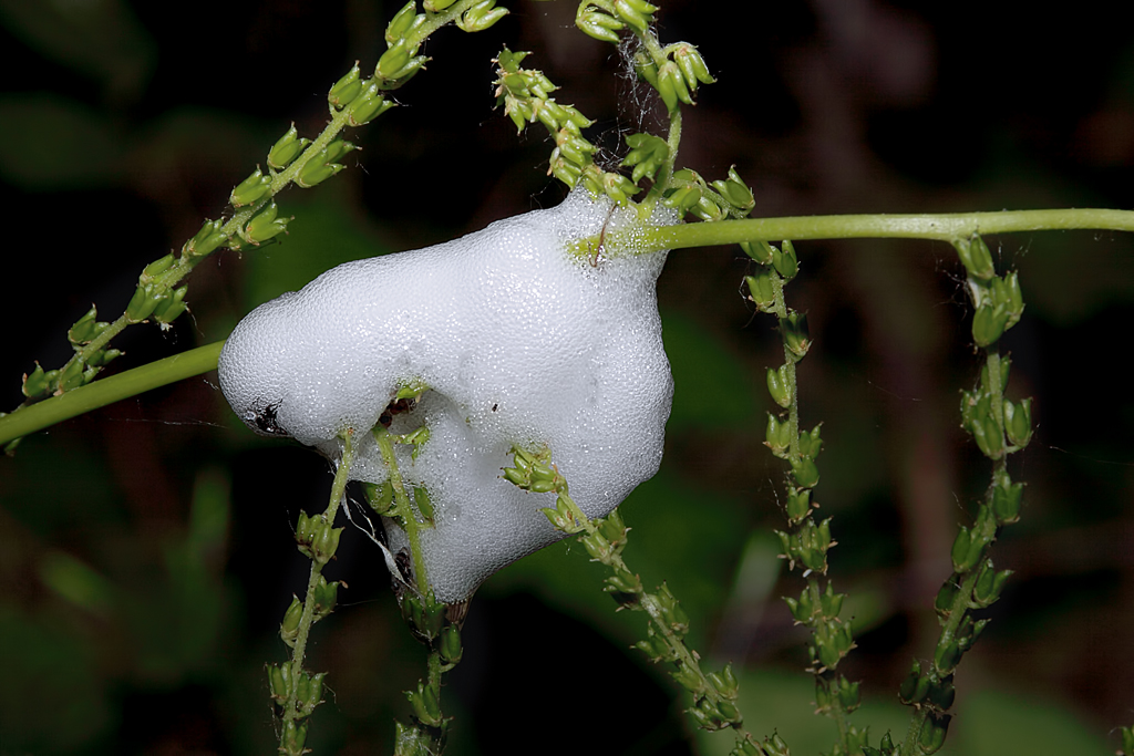 The foam/froth which hides the nymphal form of the froghopper, (Spittle bug, or spit bug). The froth serves a number of purposes. It hides the nymph from the view of predators and parasites, it insulates against heat and cold, thus providing thermal control and also moisture control. Reference Observed near Beaupre falls at the Nisga’a Memorial Lava Bed Park. This is the first provincial park to be jointly managed by a First Nation and BC Parks.